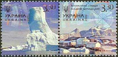 Stamp of Ukraine